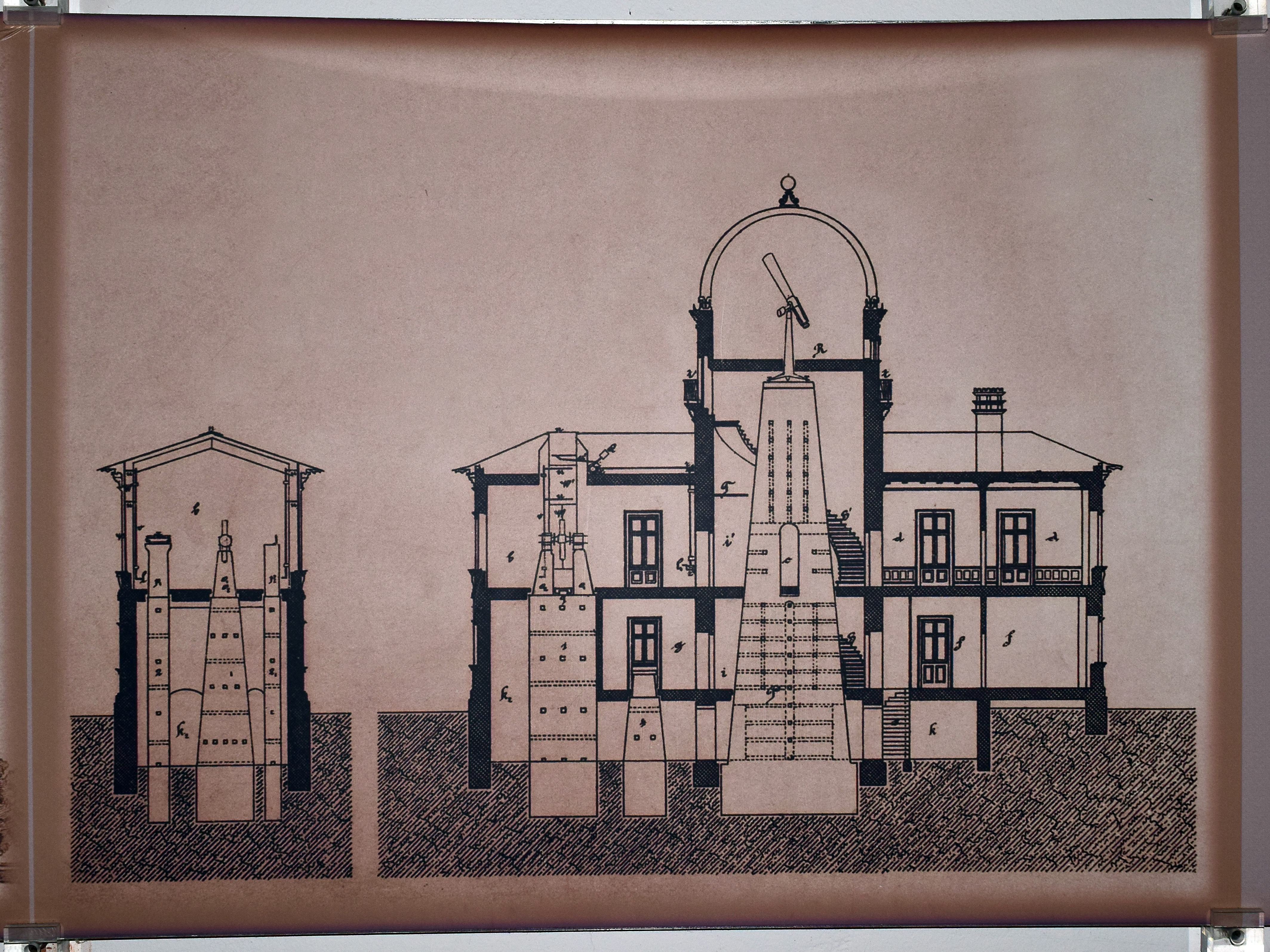 The Chalcography from 1886 shows a cross-section of Kuffner Observatory from 1886. On it the not connected to the building pillars for the astronomical devices are clearly visible.